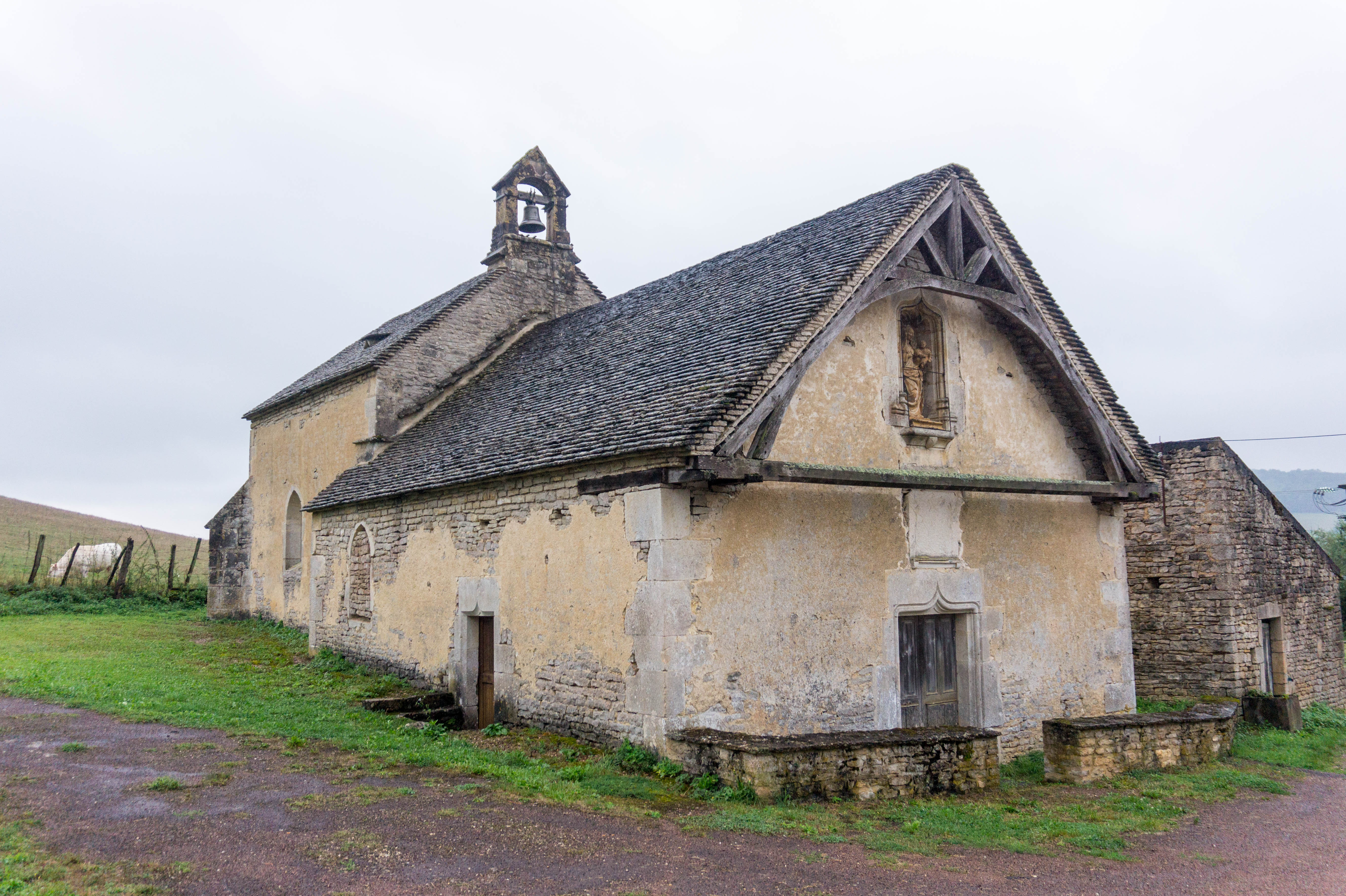 Saint Claude Chapel, located in Brain, Côte d'Or, France. Monument historique.